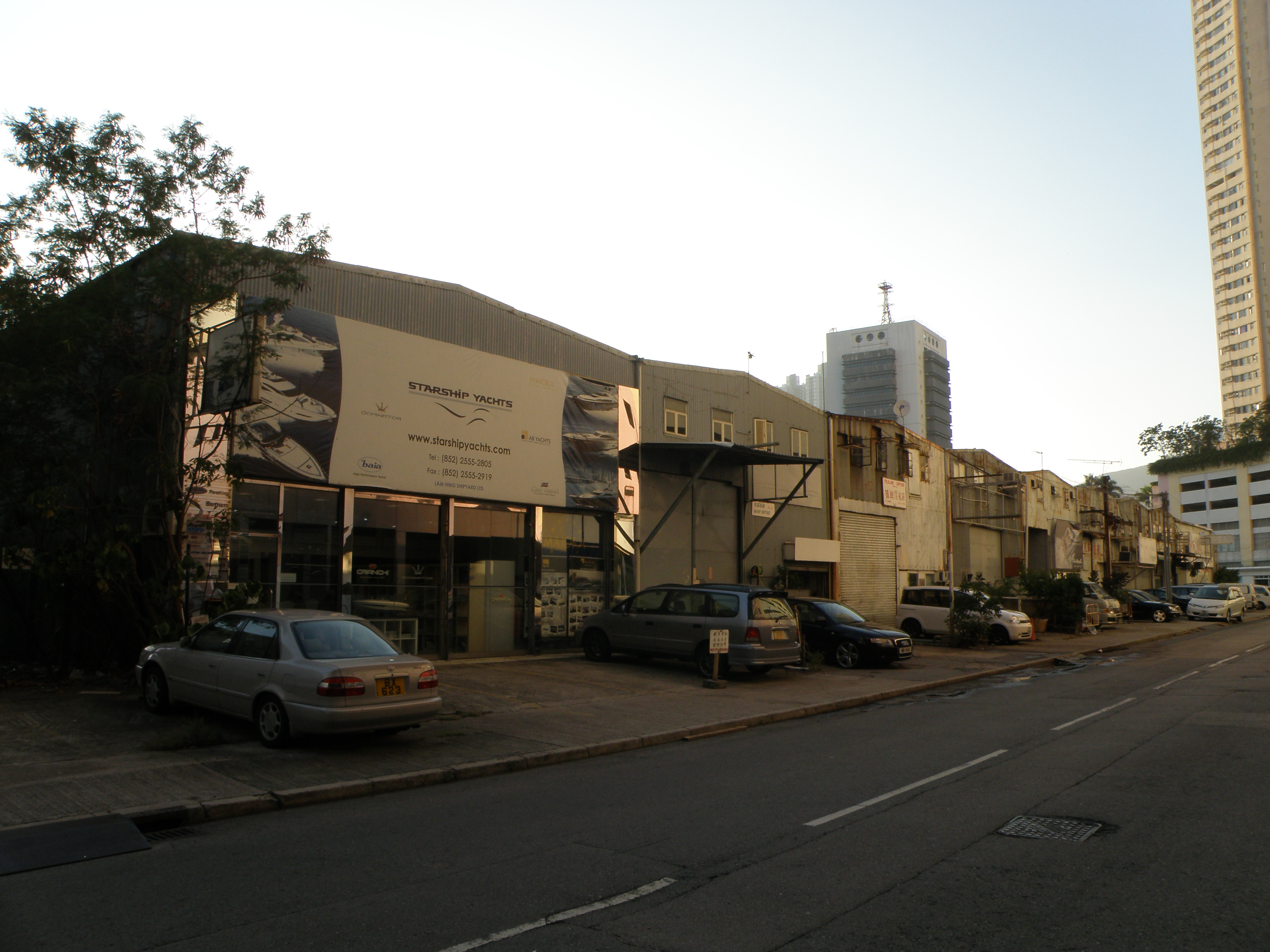 Shipyards in Po Chong Wan, Hong Kong.